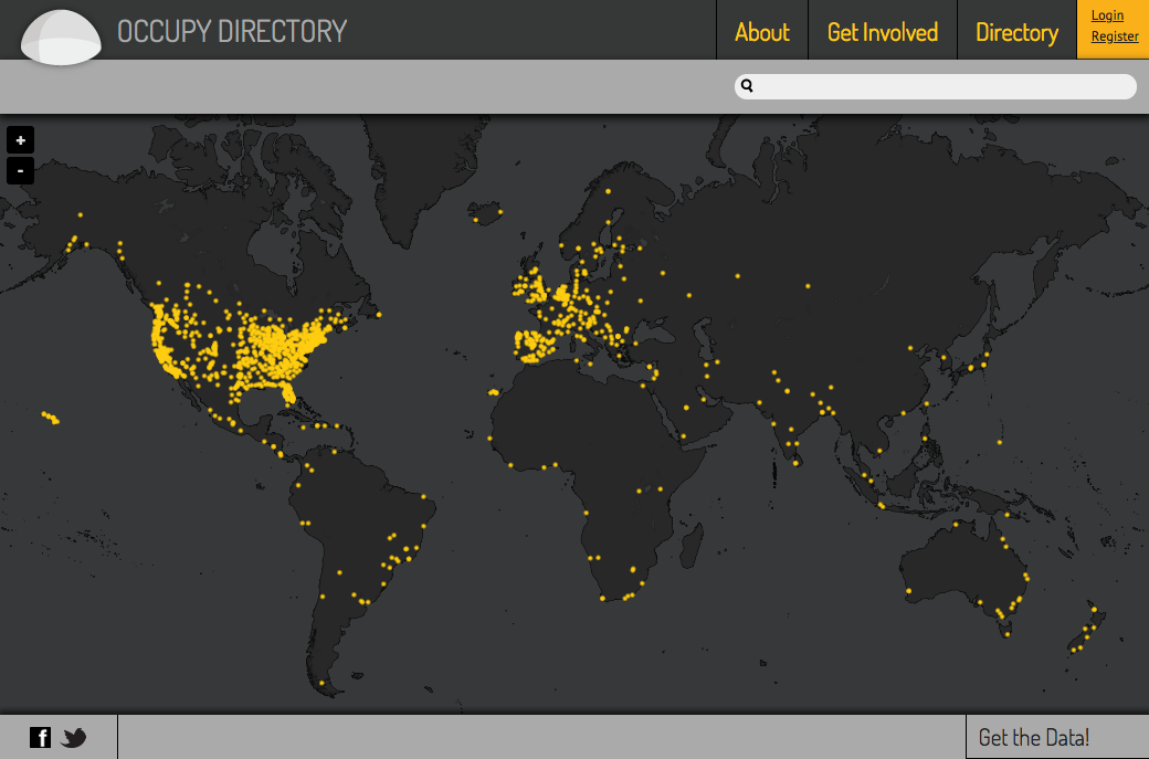 Points on a word map visualizing every known instance of an Occupy Movement encampment